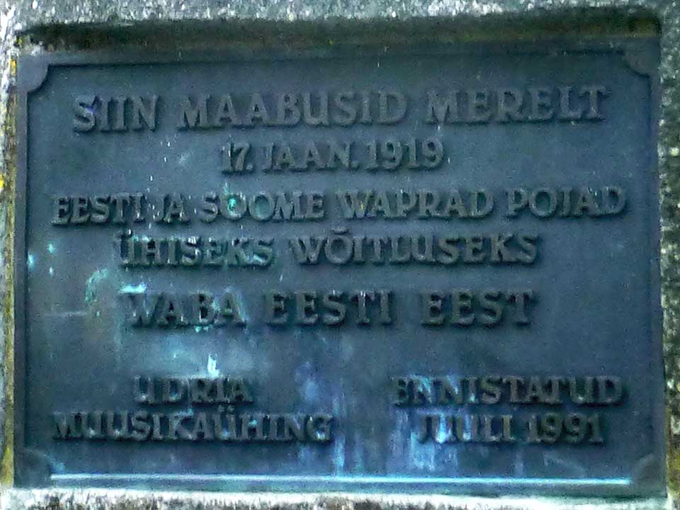 The memorial of the Utria landing in Udria village, Estonia